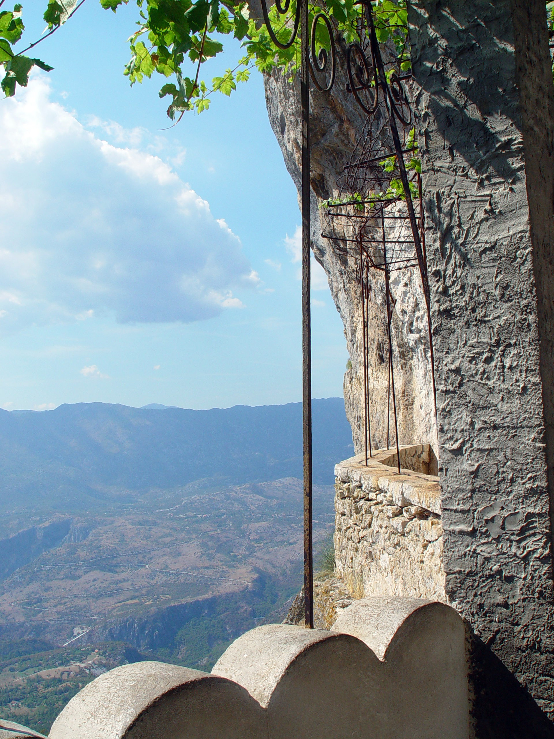 View from Ostrog (Montenegro) upper monastery to Bjelopavlići plain